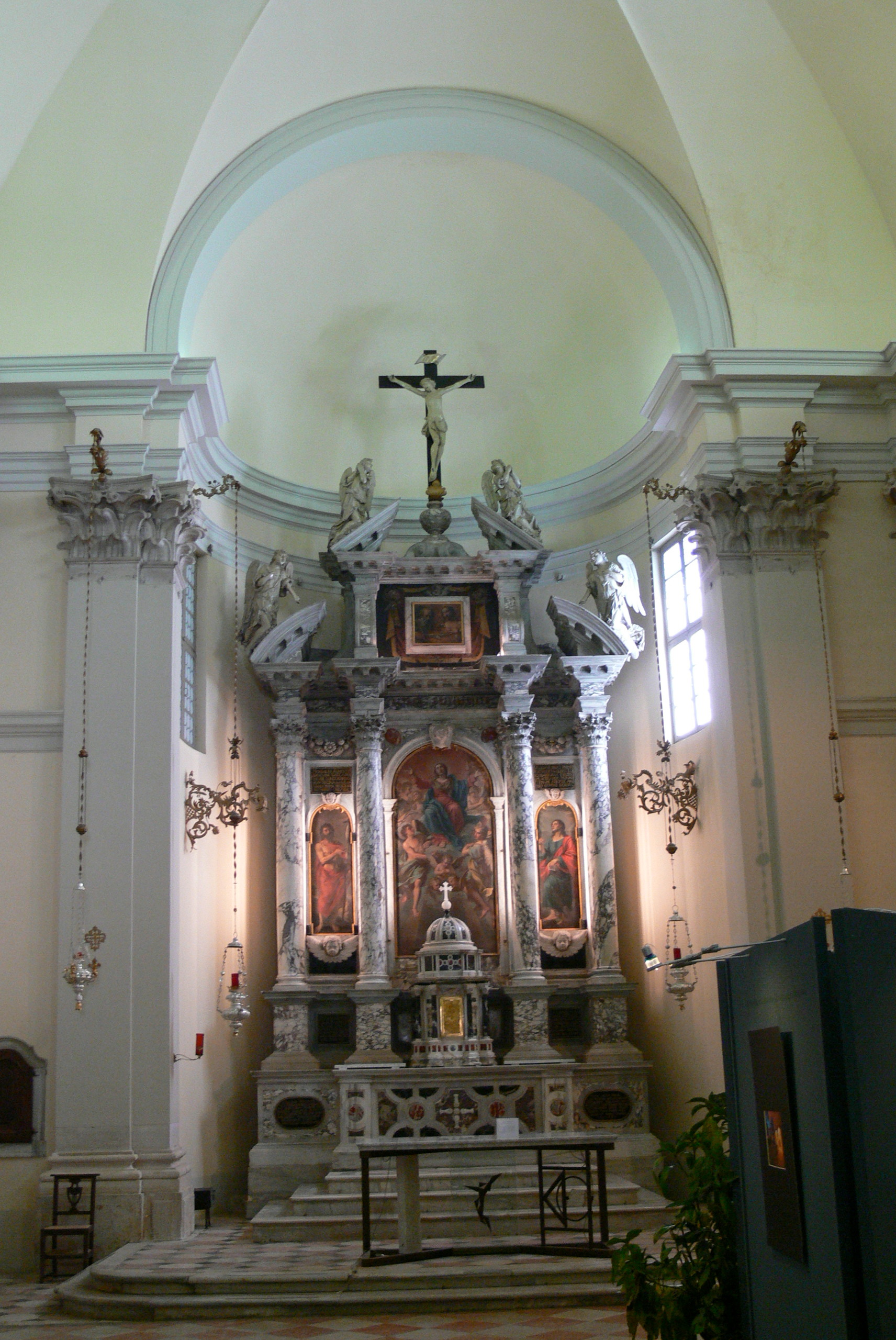 Cividale, Italy. San Giovanni in Valle: High altar ( 1750s ) by Ercole Graziani the Younger.